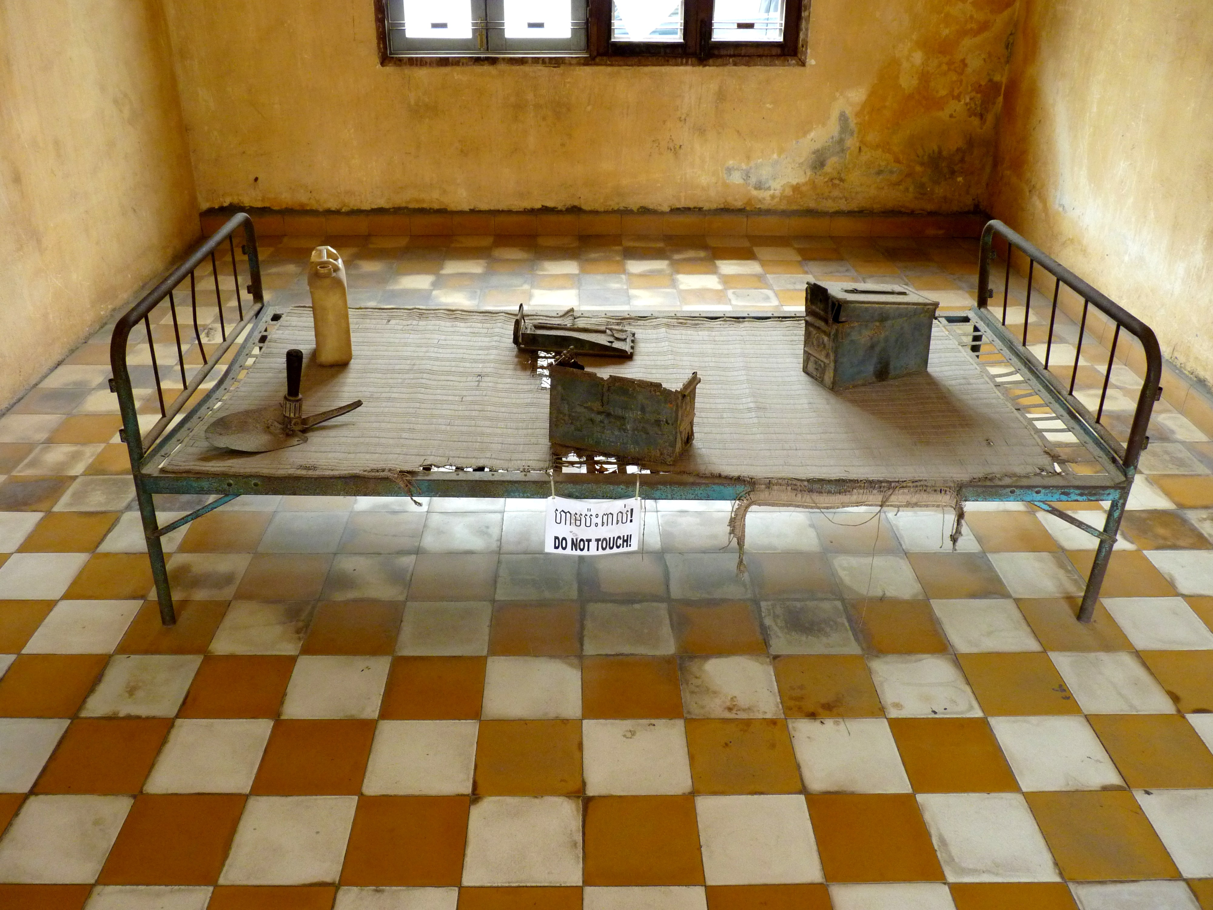 Iron bed in Tuol Sleng prison